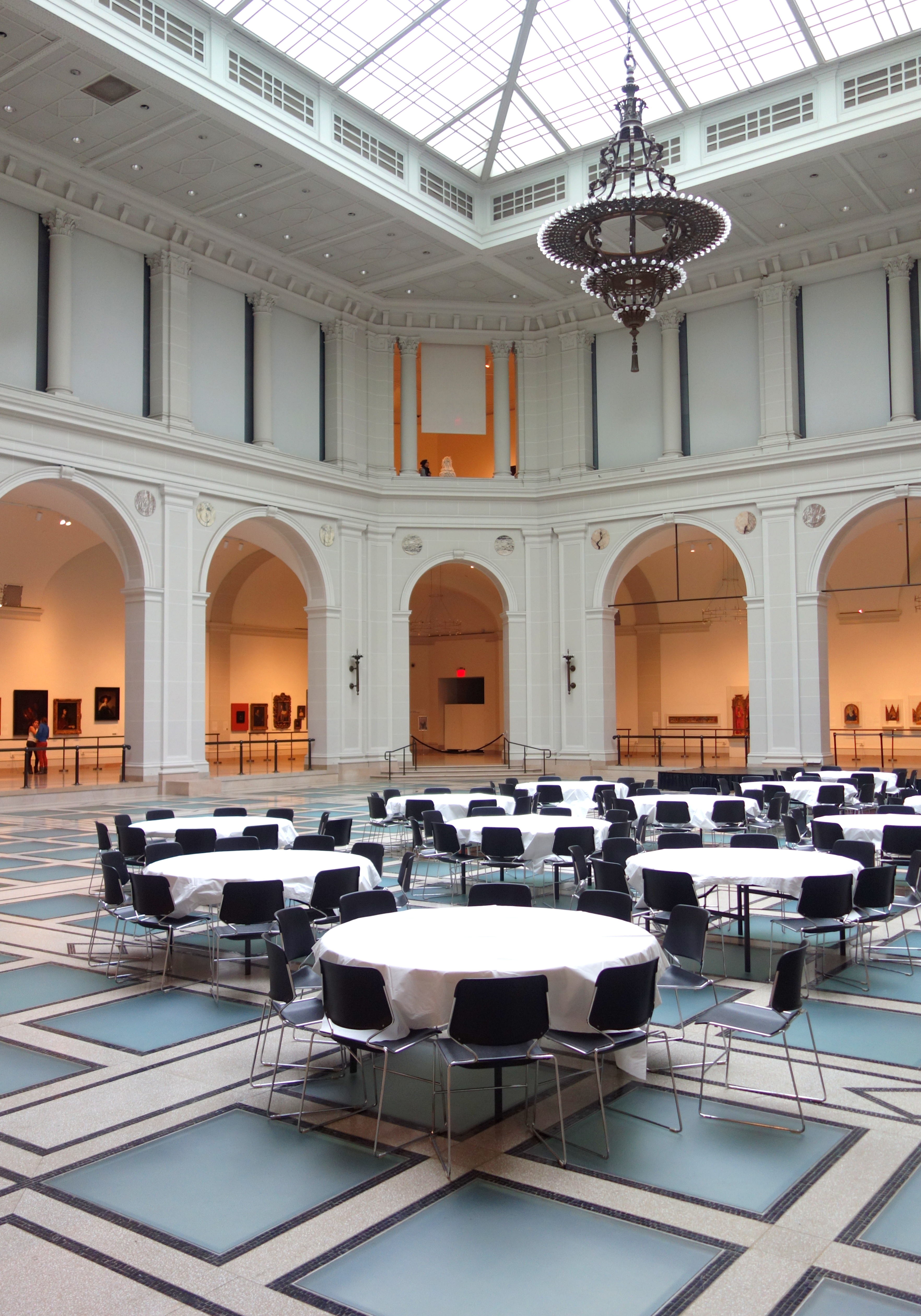 Interior view of the Brooklyn Museum - Brooklyn, New York, USA.